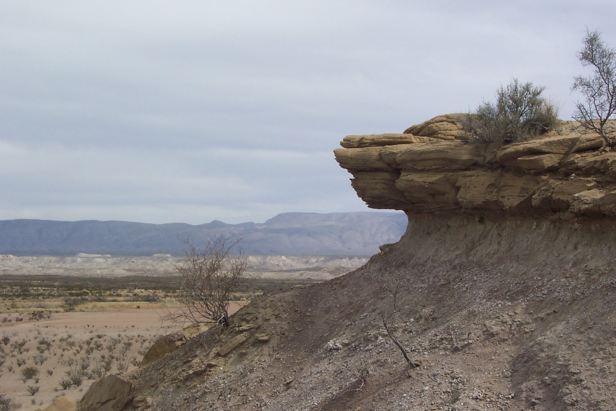 Rock formations in the Chihuahuan Desert at Big Bend National Park.